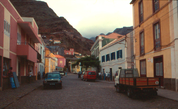 Street in Ribera Grande, Santo Antão, Cape Verde This image was copied from pt. The original description was: Vista de uma rua da Ribeira Grande. Julho de 1997. OTIMarte